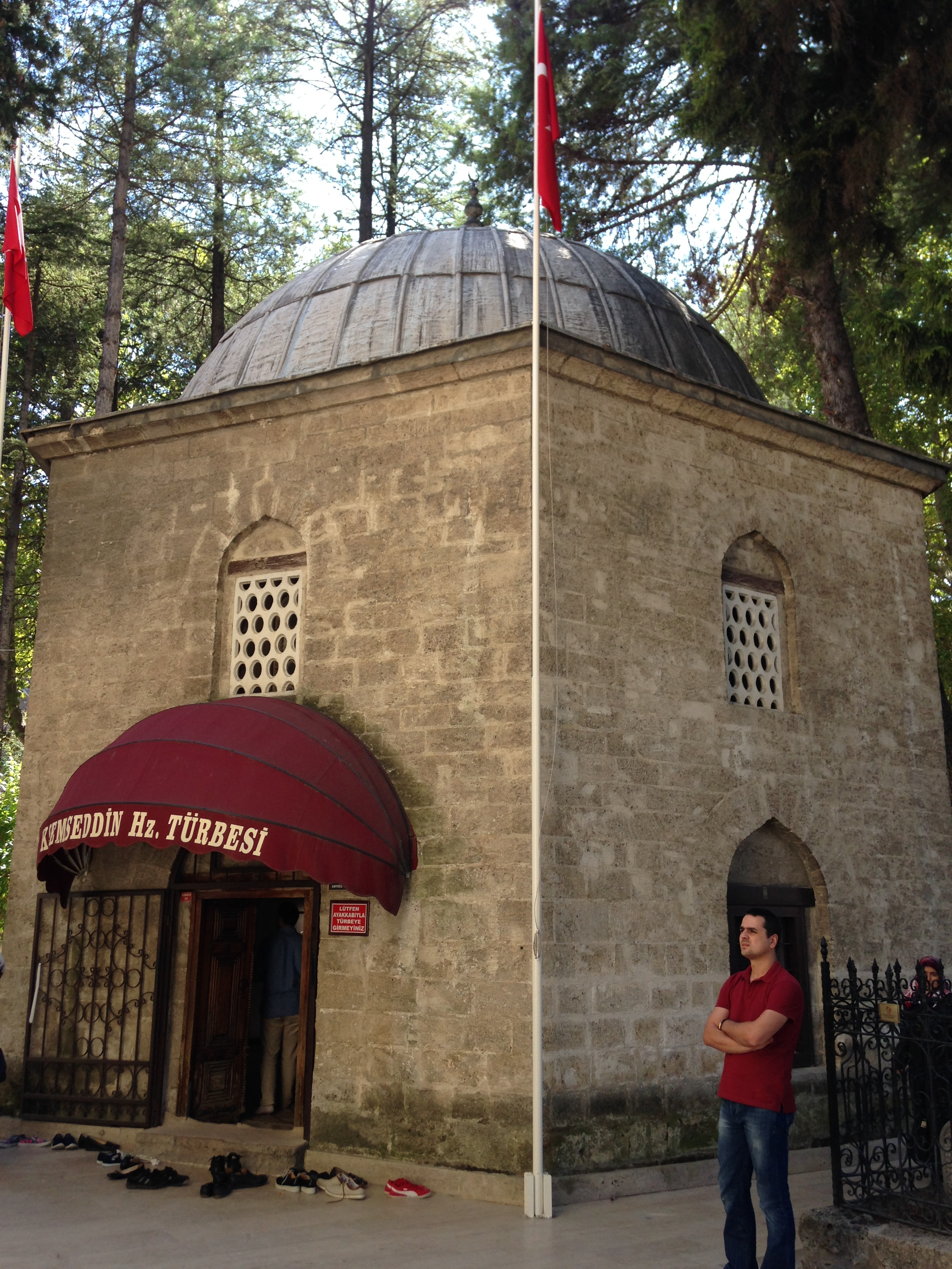 The resting place of Ottoman Sultan Mehmet II. (Fatih) the Conqueror's spiritual guide, Hazrat Shaykh Akshamsaddin, at Goynuk, Bolu, Turkey.